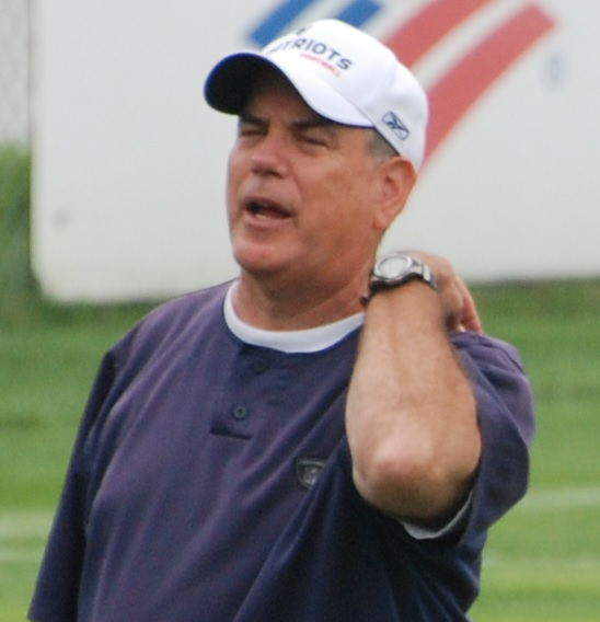 New England Patriots defensive coordinator Dean Pees during training camp.